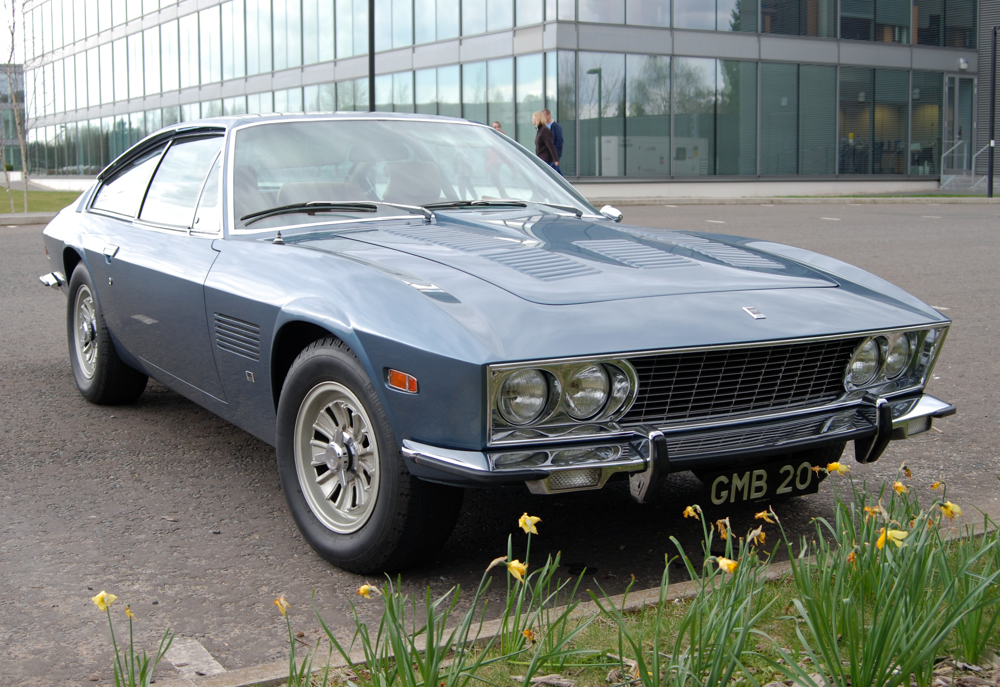 Brooklands car park,Mar 2009